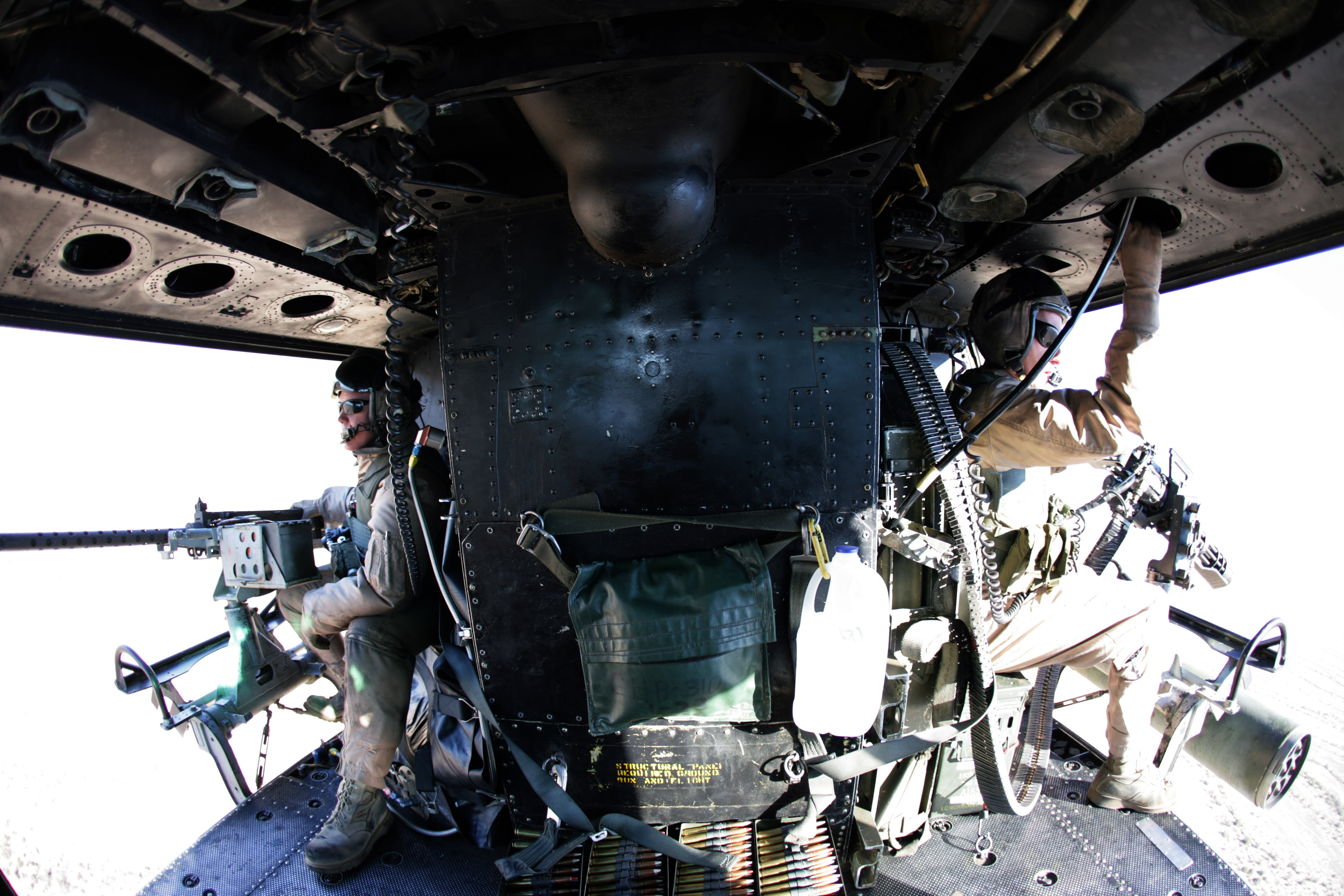 YUMA, Ariz. (Dec. 12, 2007) During flight, the crew chiefs, Sgt. J.R. Murphy, left, and Staff Sgt. B.W. Boroff, both attached to Helicopter Light Attack Squadron (HMLA) 367, look over the horizon with their .50-cal machine gun and 7.62 mini-gun to scan for any enemy targets that might be endangering to their UH-1N Huey attack helicopter. As door gunners/crew chiefs, their mission is to protect the aircraft by providing heavy gun suppression and to support ground forces with indirect fire capabilities. U.S. Marines Corps photo by Staff Sgt. John A. Lee II (Released)